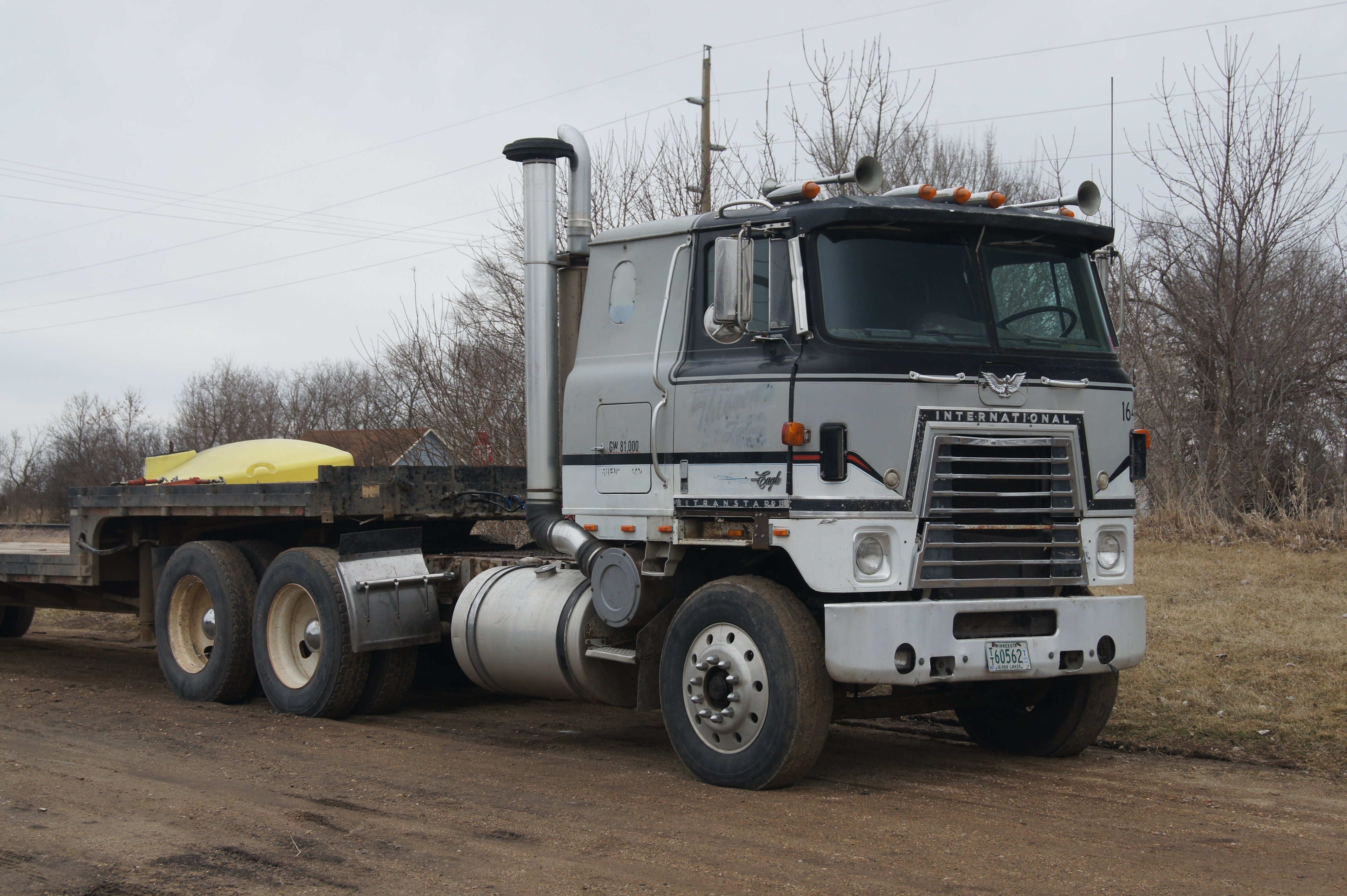 International Transtar II Eagle